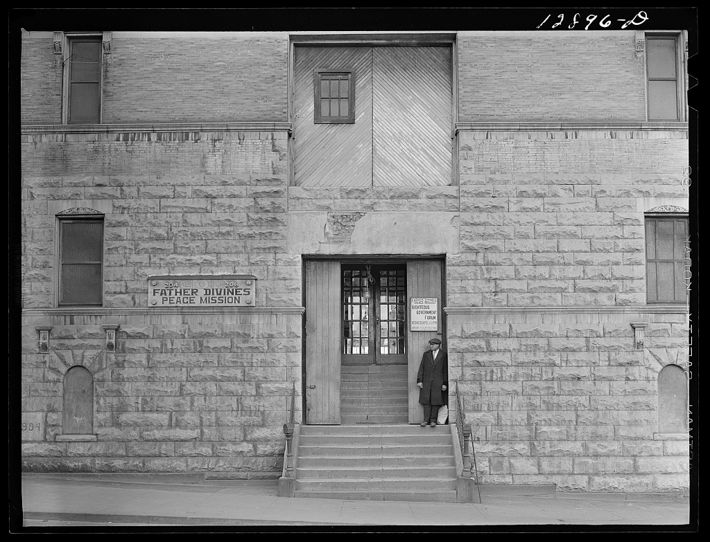 One of Father Divine's Peace Mission "Heavens" from the East Side of New York. Taken December, 1941.